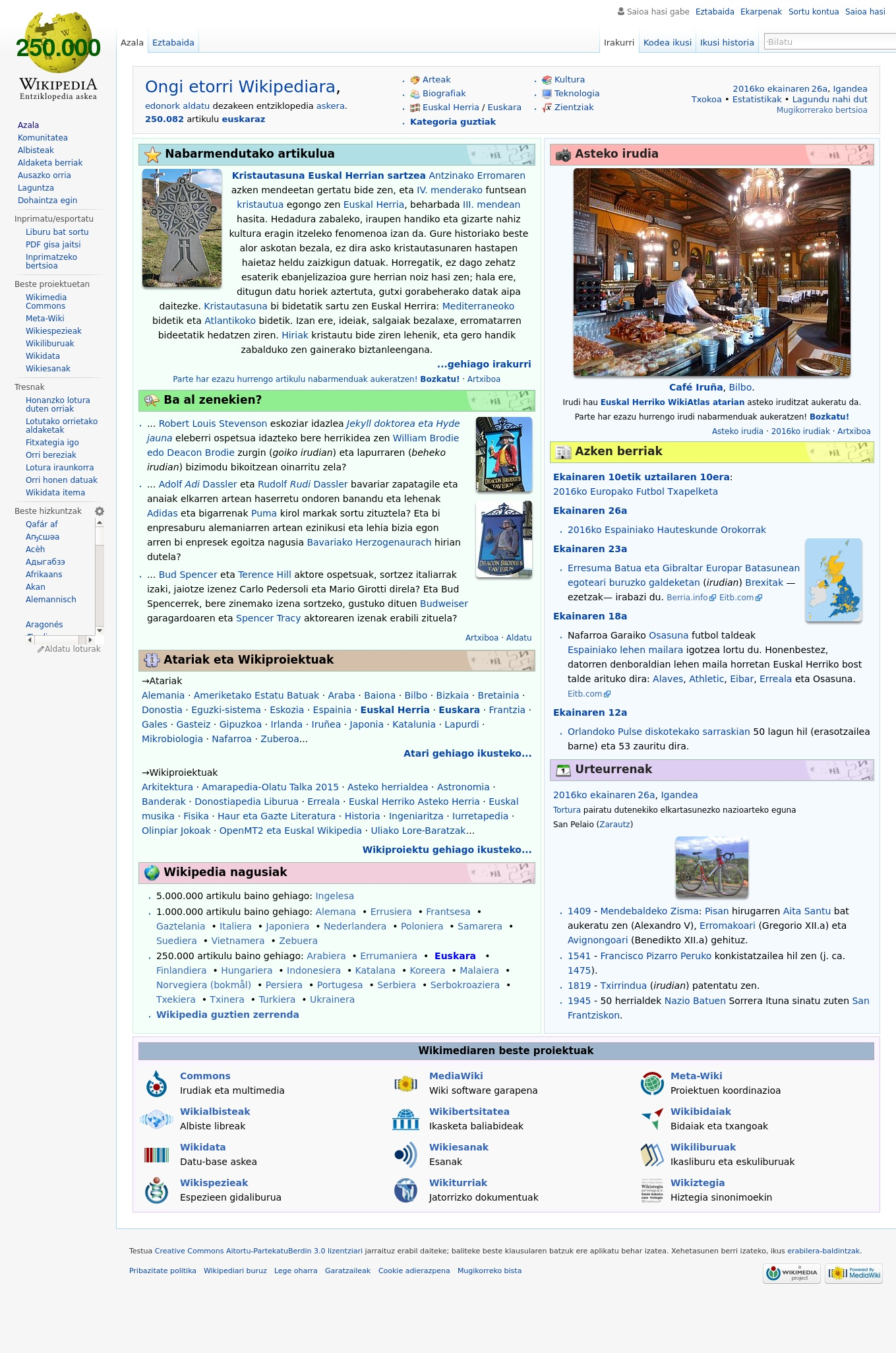 Basque Wikipedia's 250.000 article, 23 june, 2016